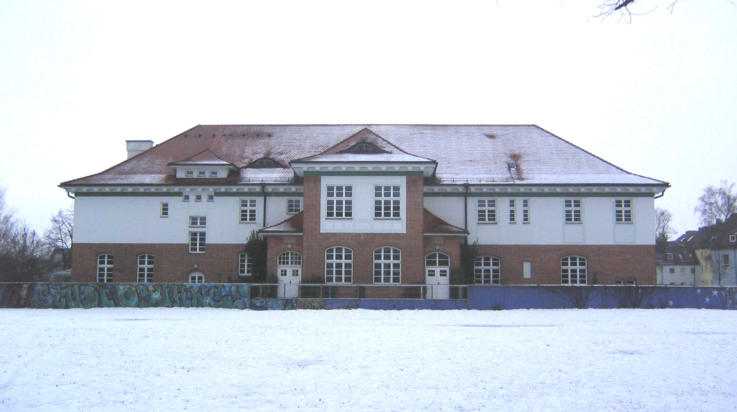 Theatre Studiobuehne in Bayreuth